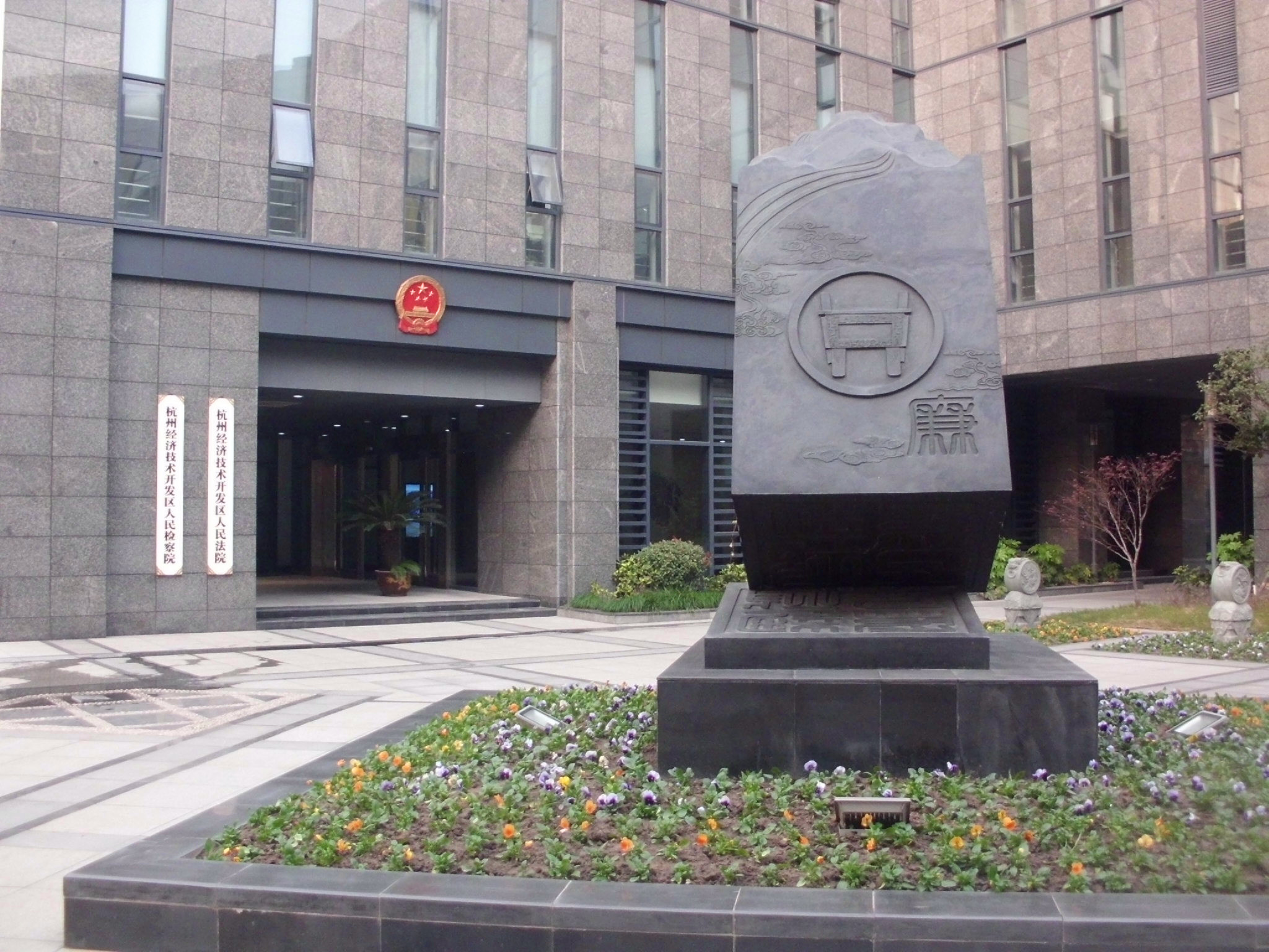 Xiasha Cultural Center